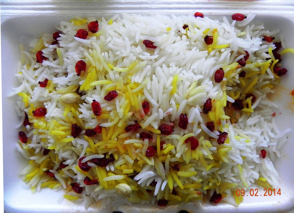 Zereshk Polo